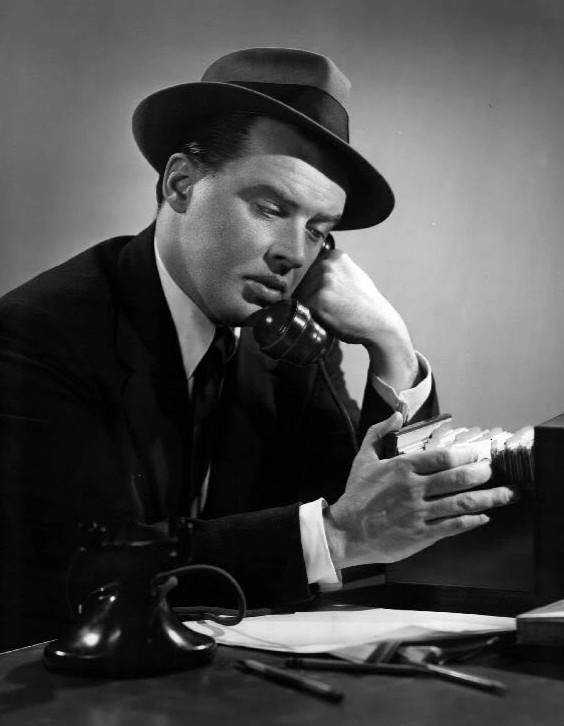 Photo of John McQuade as Charlie Wild from the program Charlie Wild, Private Detective. The program aired on radio and television with McQuade played the role on both shows.